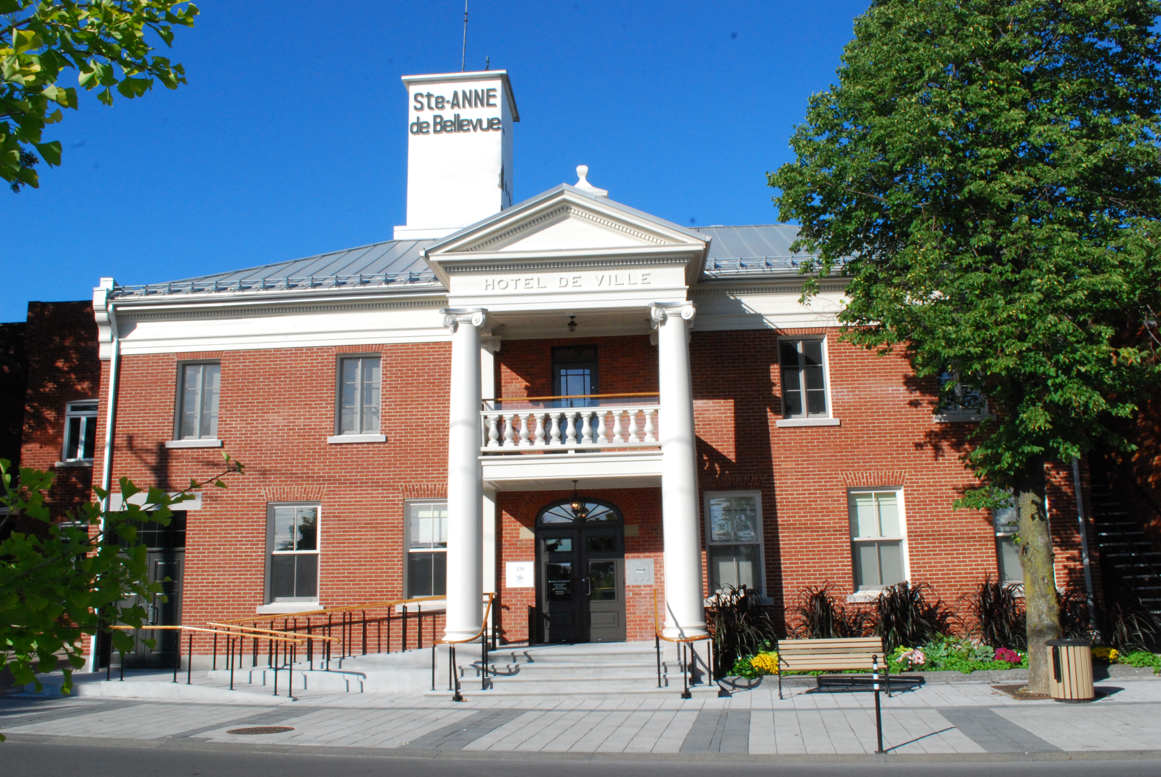 Sainte-Anne-de-Bellevue city hall in 2014, after major renovation.